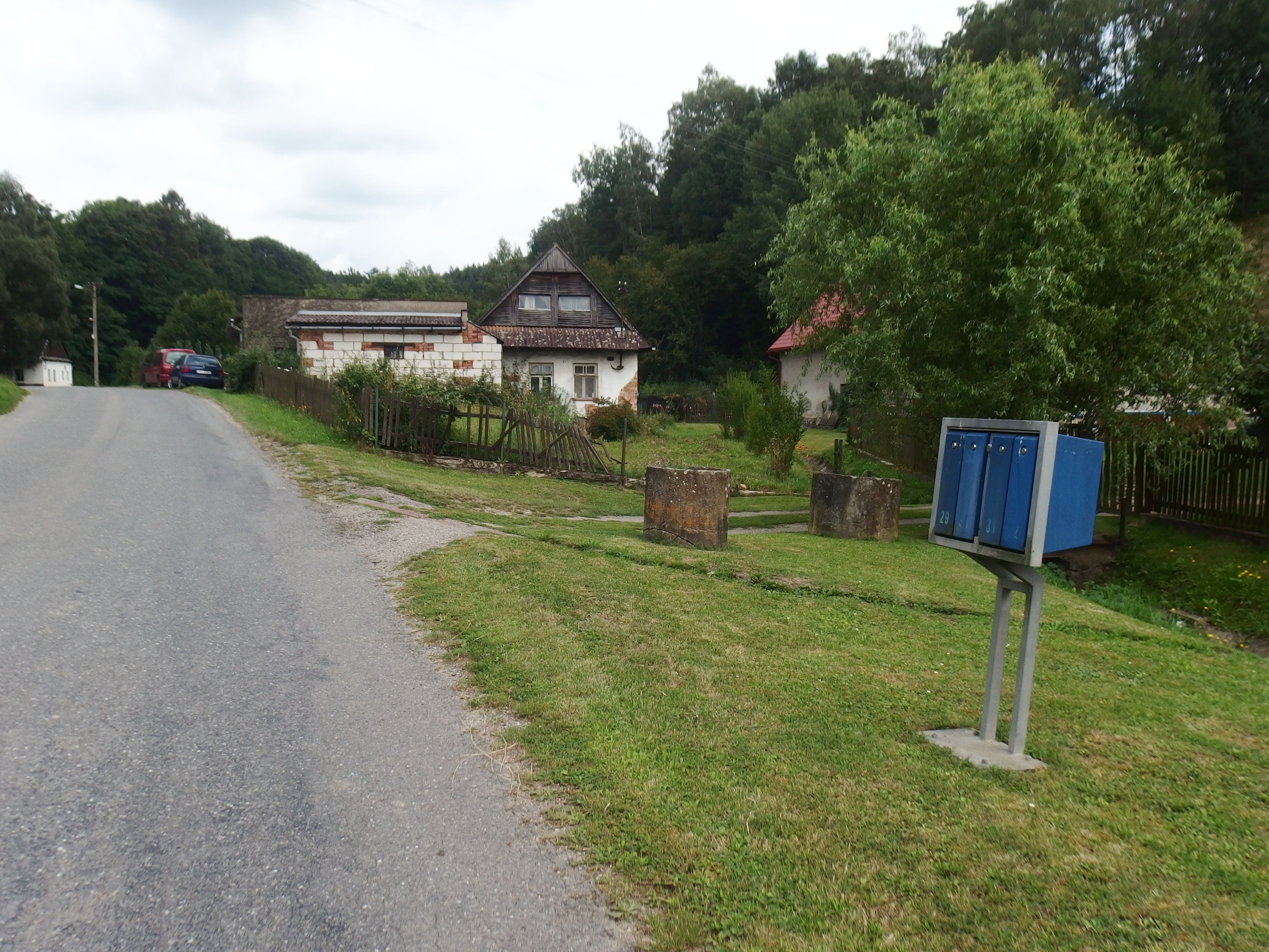 Borušov, Svitavy District, Czech Republic, part Prklišov.